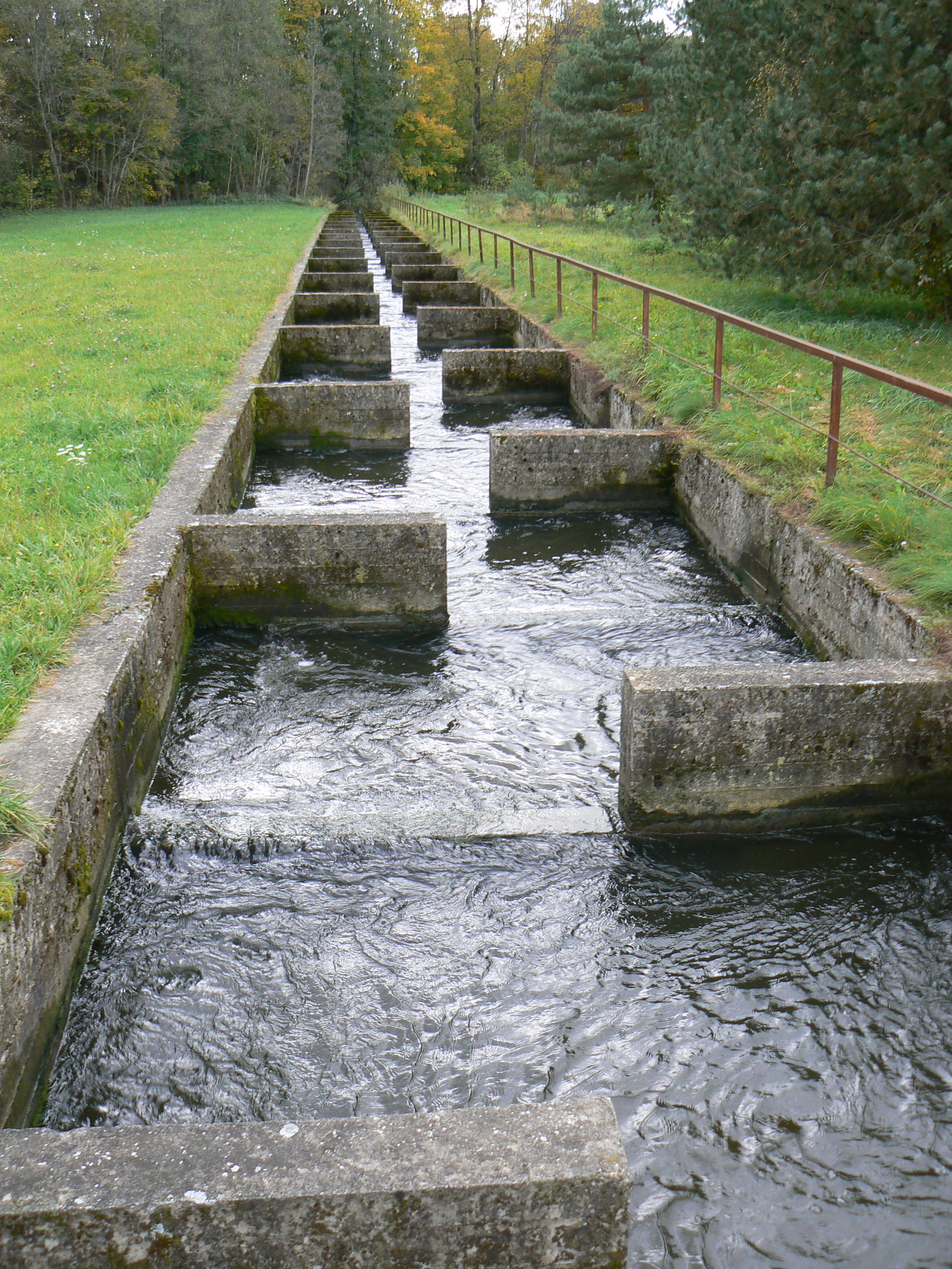 Fish ladder in Agluonėnai (Klaipėda district)